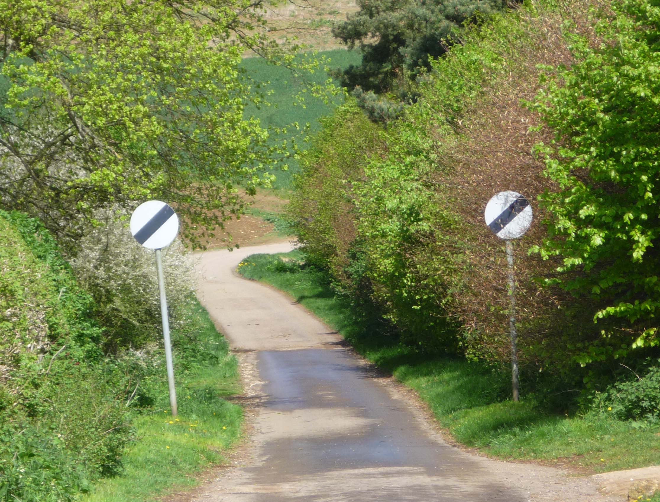 UK national speed limit signs on a country lane